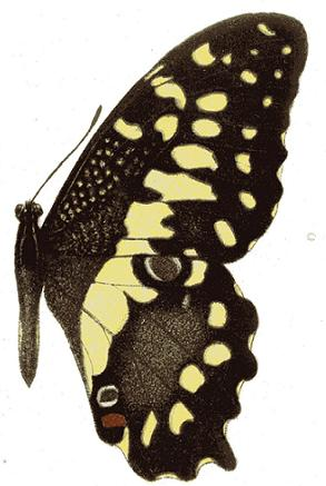 Papilio erithonioides Smith = Papilio erithonioides Grose-Smith, 1891, upperwing